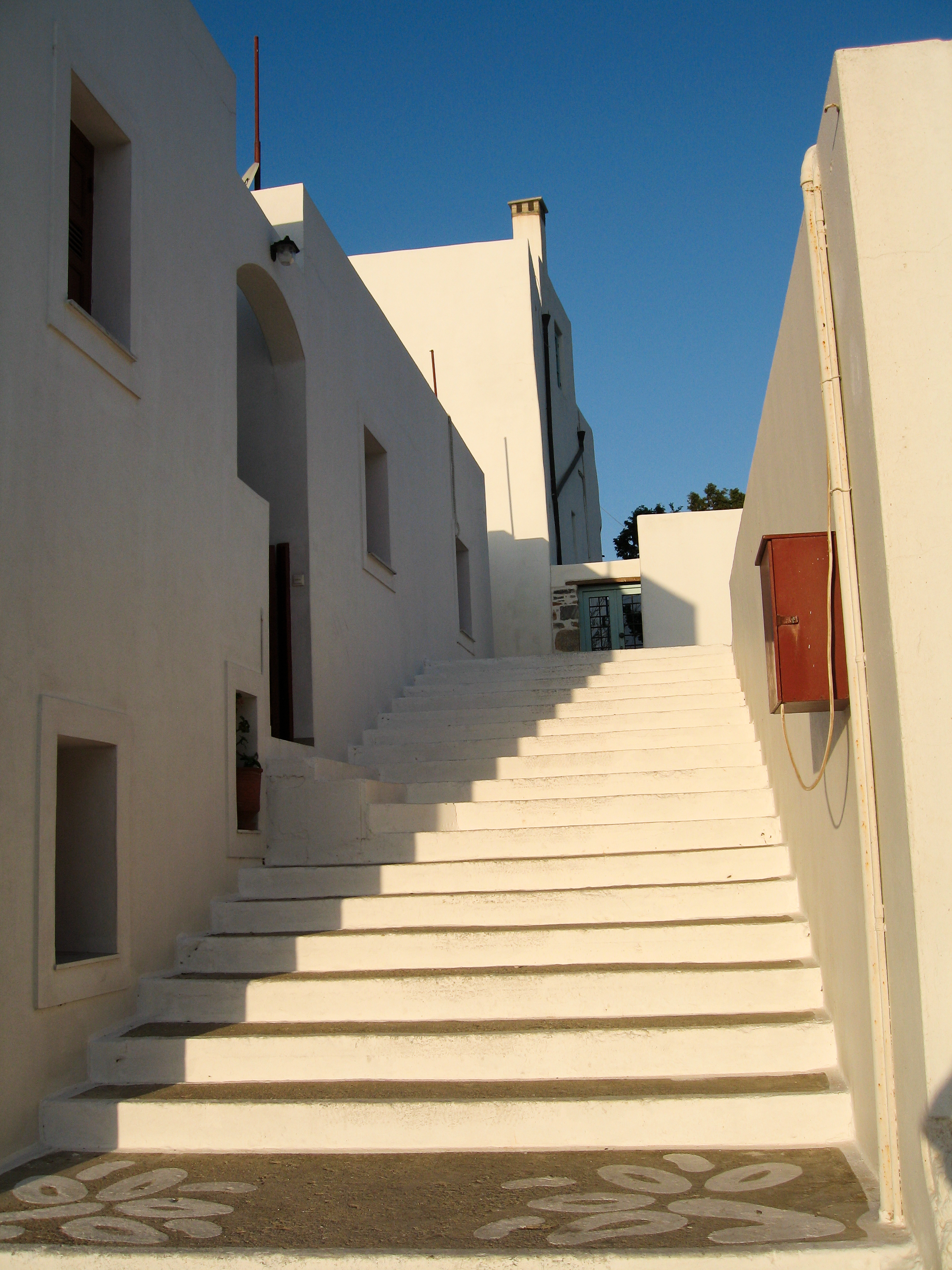 Amorgos Island, Greece